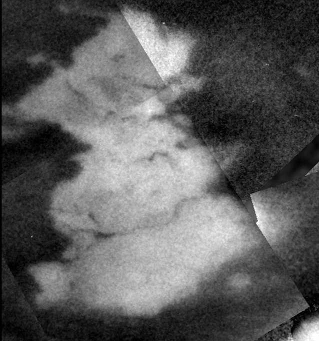 Shikoku Facula on Saturn's moon Titan. This mosaic consists of images taken on October 26 and December 13, 2004 by the Cassini spacecraft's Imaging Science Subsystem.